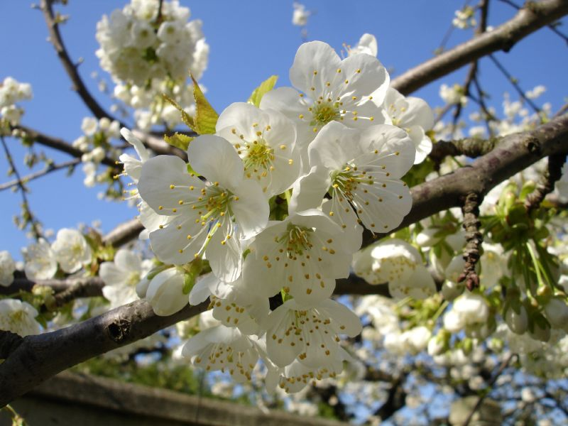 Cherries blooming on cherries tree